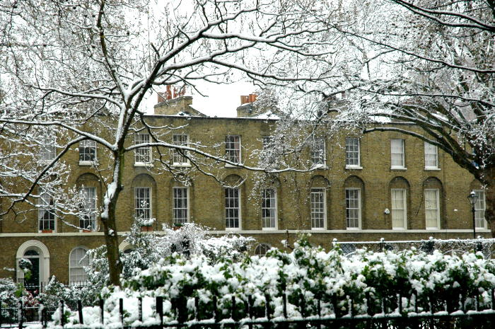 Abour Square, Tower Hamlets London